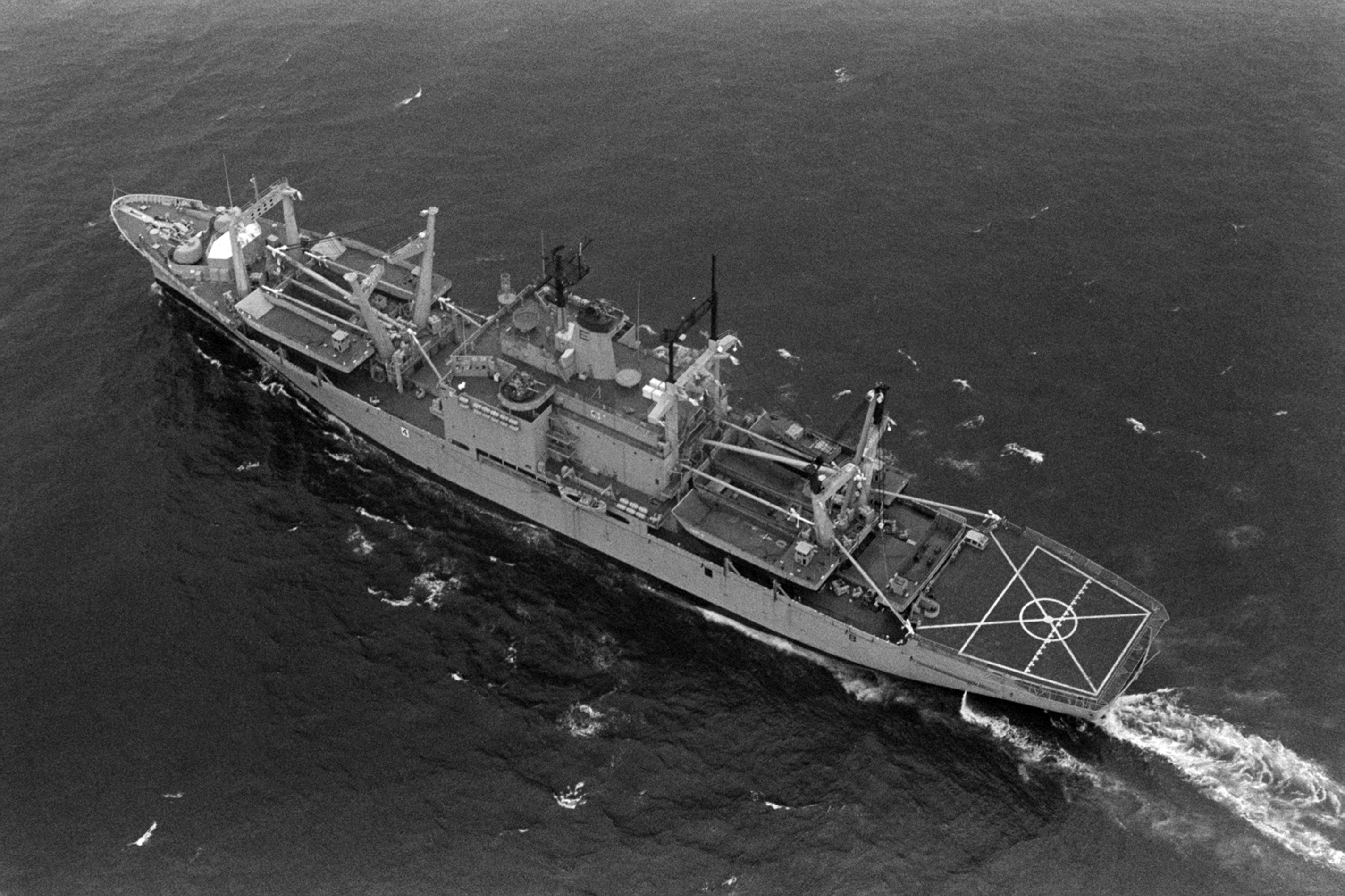 The U.S. Navy amphibious cargo ship USS El Paso (LKA-117) underway in 1983.